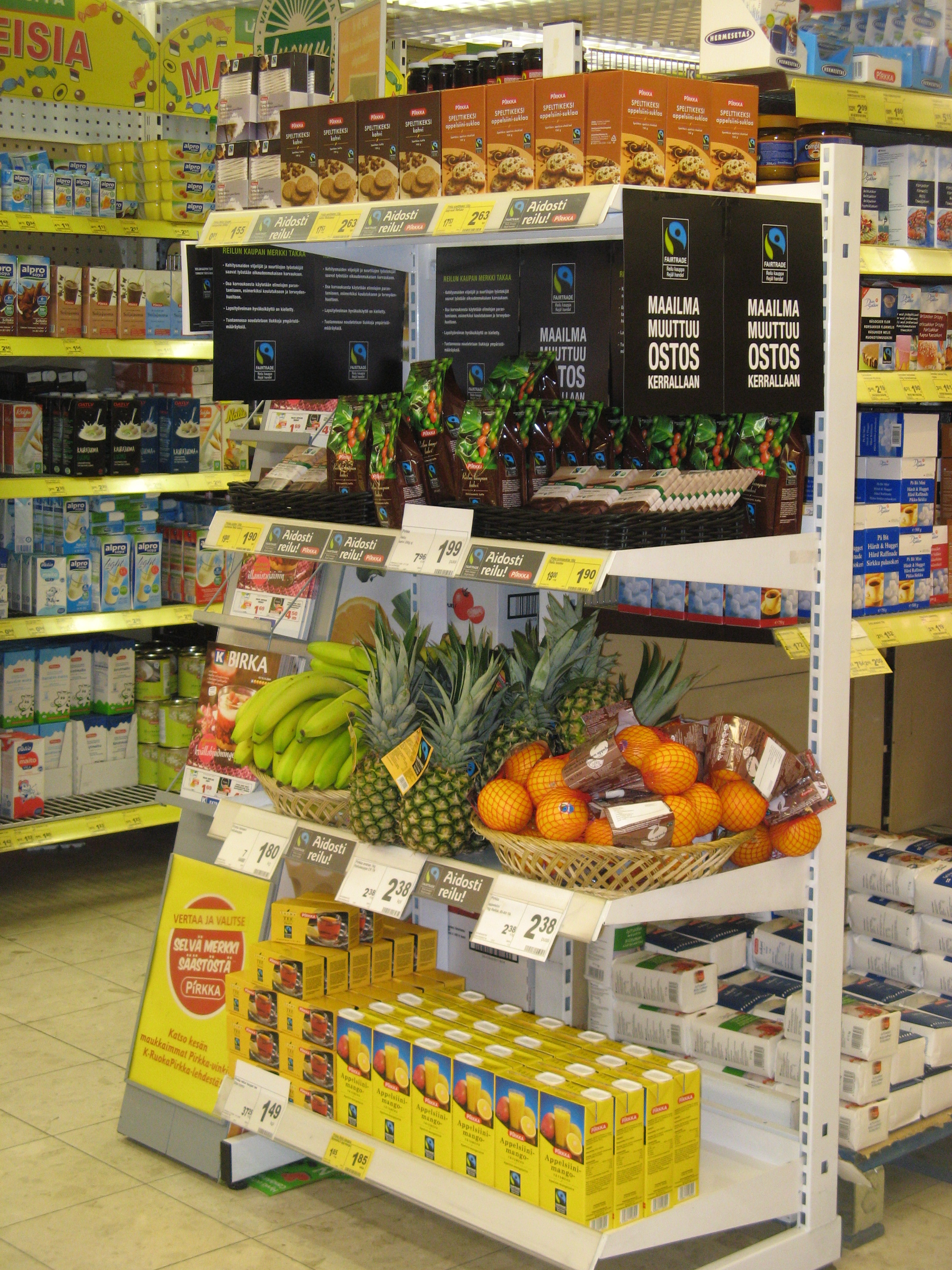 Fair trade exhibition in the food shop Puhakka, Turku.